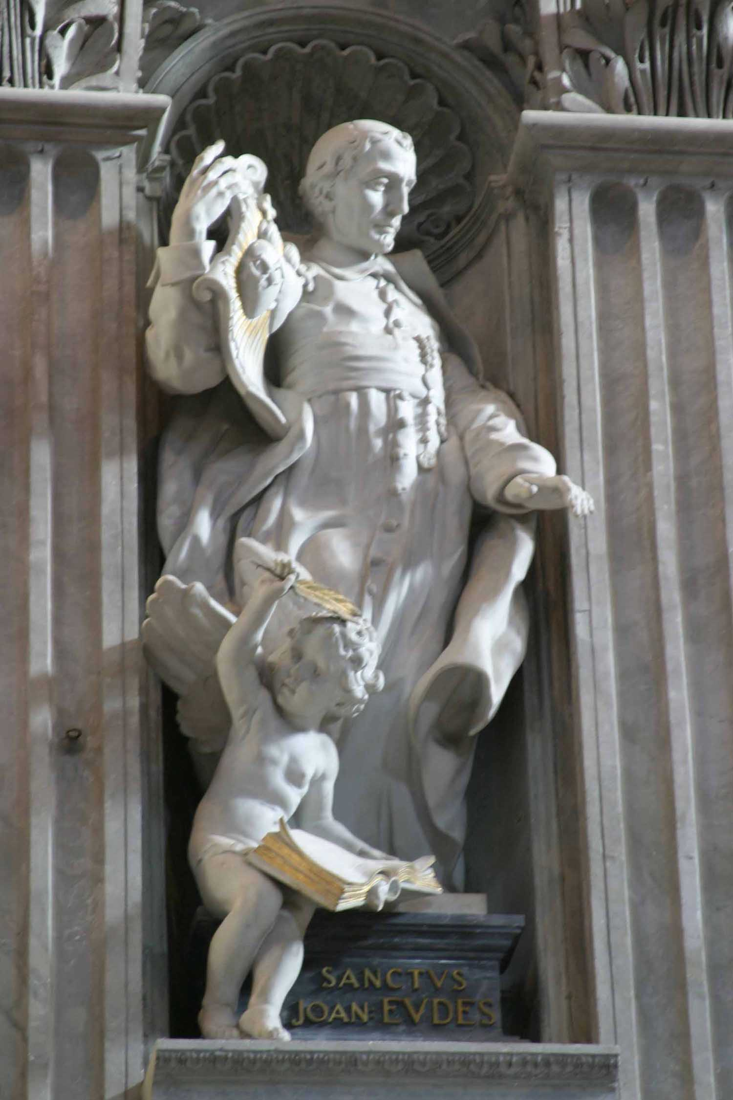 Scultpture of St. John Eudes at St. Peter at Vatican basilica, by S. Silva